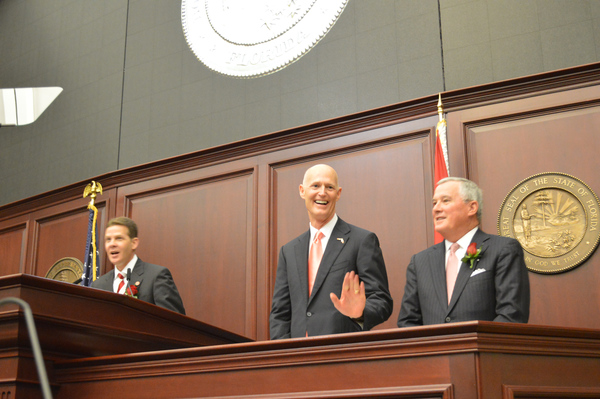 Accompanying note: "Gov. Rick Scott waves to legislators prior to his 2015 'State of the State' speech on opening day of the session. Sen. Garrett Richter, R-Naples, applauds at right as Senate President Andy Gardiner, R-Orlando, introduces the governor."